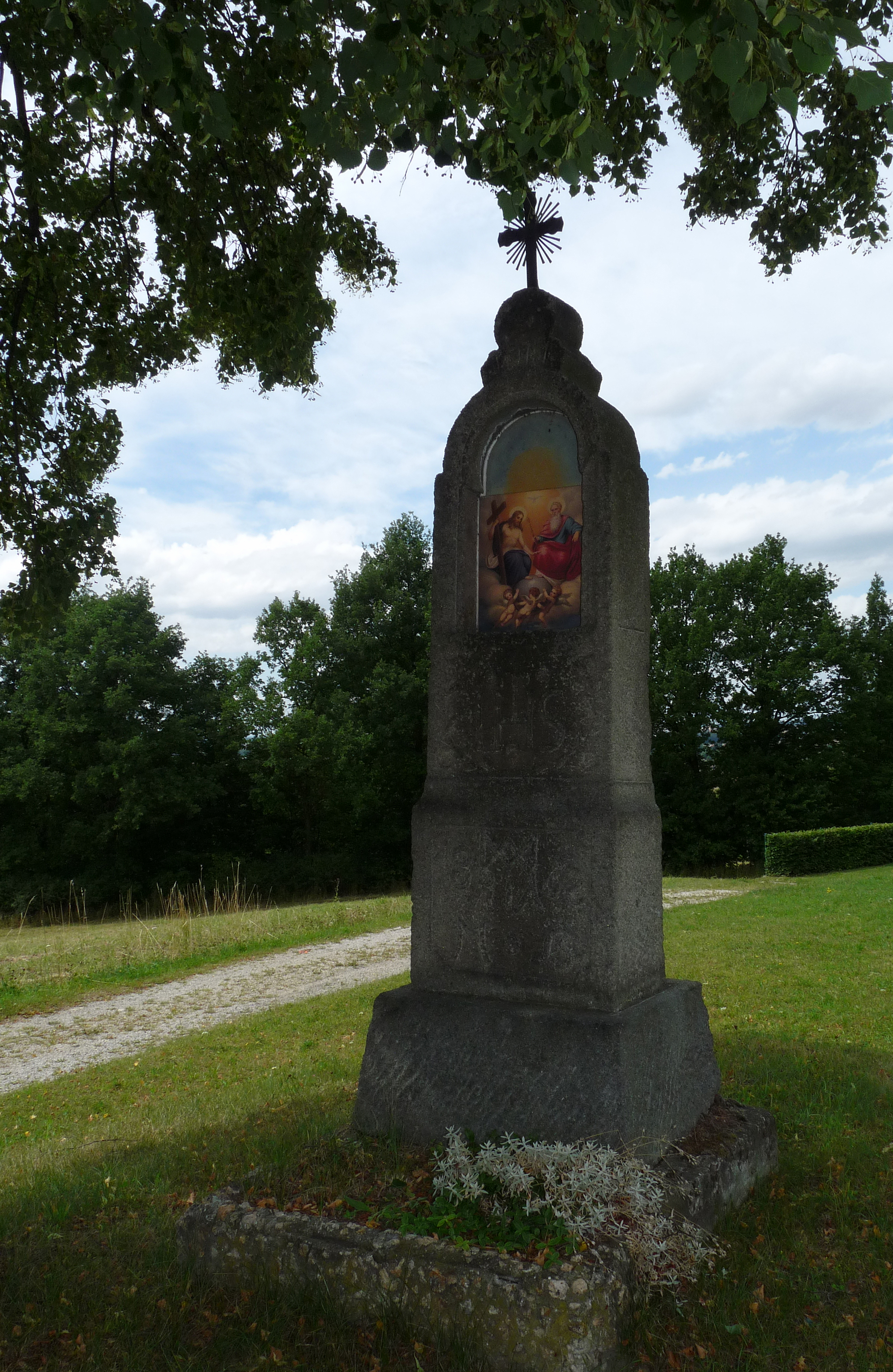 Wayside shrine in the village of Doubravice, České Budějovice District, Czech Republic. Česky: Boží muka u Farků v obci Doubravice, okres Českých Budějovice.